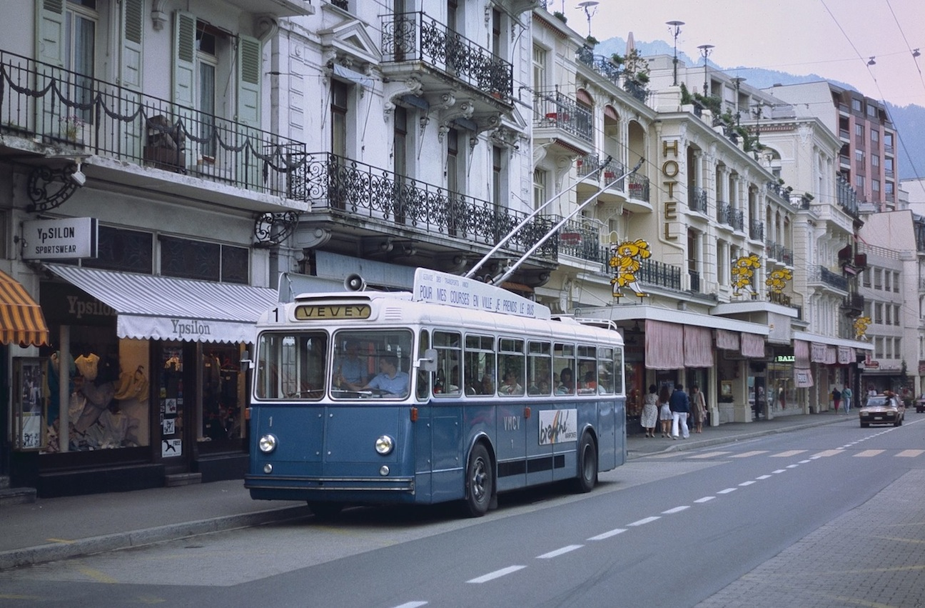 Trolleybus No. 1 of the Montreux/Vevey trolleybus system (VMCV) was a 1957 Berna. It is pictured northbound on Grand Rue, in Montreux (which is generally westbound on the trolleybus line), at the stop nearest the railway station, en route to Vevey. Trolleybus 1 was retired around early 1995, and the last vehicles of its type were retired around the end of 1995. The route number was also 1 at this time, shown by the numeral above the windshield, but was changed to "201" in 2010.